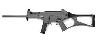 HK USC